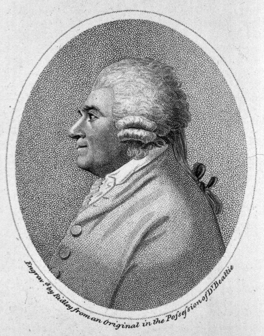 James Beattie, Scottish scholar and writer